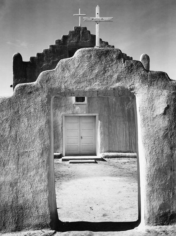 Church, Taos Pueblo. Front view of entrance, "Church, Taos Pueblo National Historic Landmark, New Mexico, 1942" [Misicn de San Gercnimo] (vertical orientation)